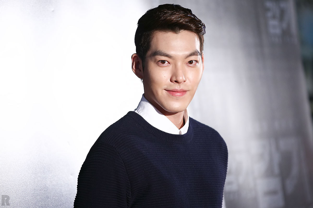 Kim Woo-bin at the The Flu premier in August 7, 2013.